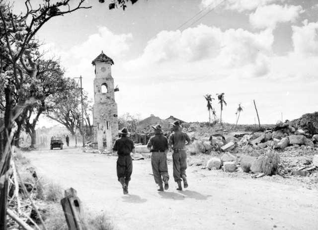 Ruins of the town hall and remains of a tower, of what was once the pretty little town of Victoria on Labuan Island, which was neglected by the Japanese and wrecked by our bombs and shelling before the landing of 9th Division troops.